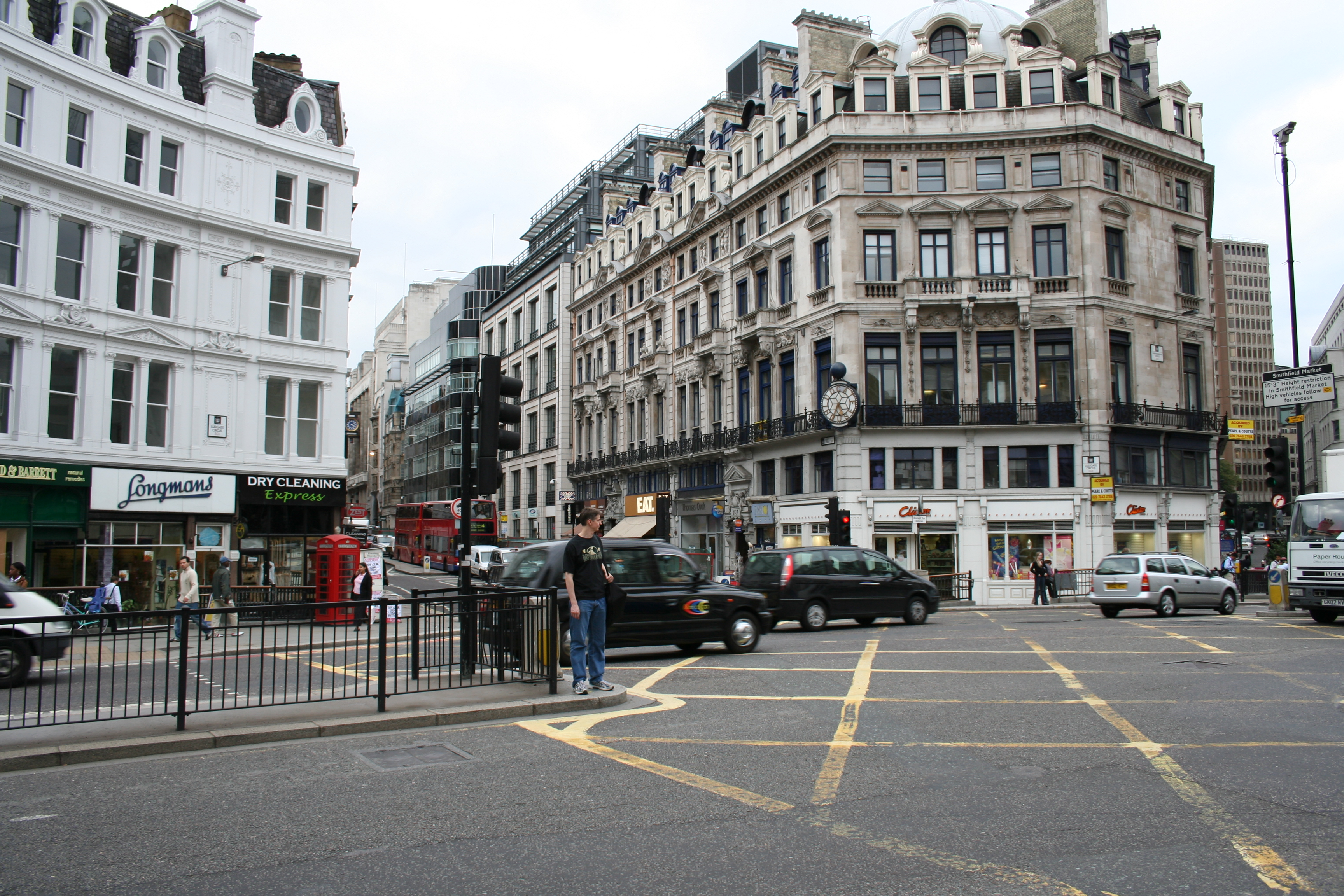 A view of Ludgate Circus, London